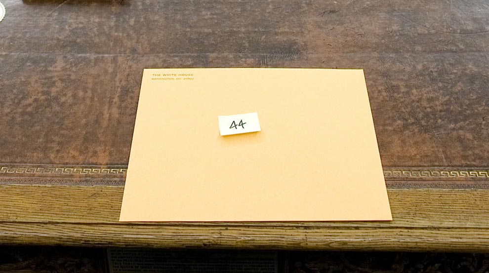 Envelope containing message from George W. Bush to Barack Obama, the 44th President of the United States, Jan. 20, 2009, sitting on the Resolute Desk in the Oval Office at the White House, effectively ending the Presidential transition.